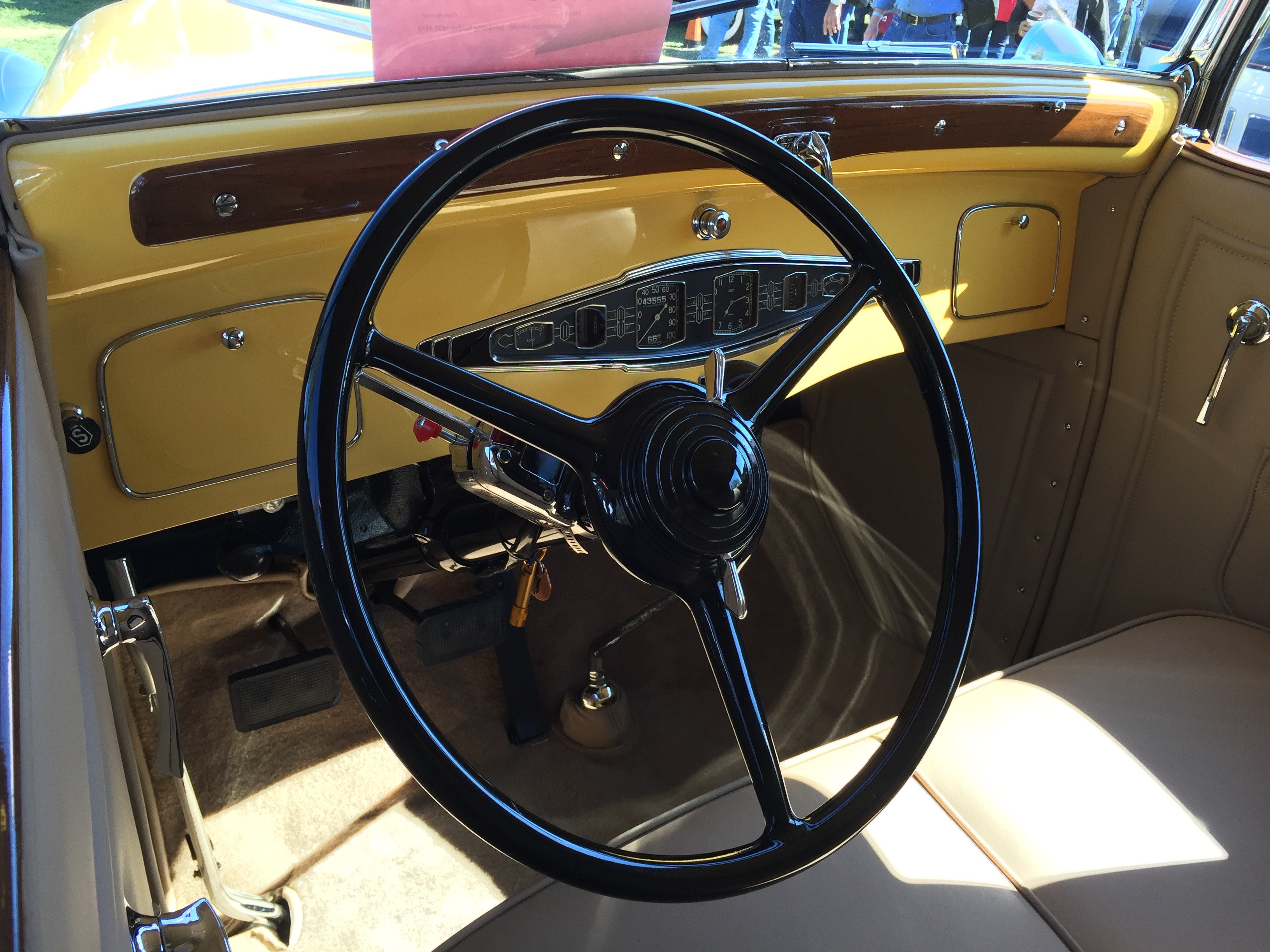 1932 Nash Advanced Eight four-door convertible (Series 1090). This Nash is large prestigious (luxury) car, and is classified by the Classic Car Club of America (CCCA) as a Full Classic. Power is the Nash twin-ignition 322 cubic-inch (5.27 L) overhead-valve straight-eight cylinder engine that features two sets of plugs, points, condensers, and coils operating from a single distributor. Other advanced features include synchromesh transmission, free-wheeling, automatic centralized chassis lubrication, as well as a suspension that is adjustable from inside the car. Picture taken at the Antique Automobile Club of America (AACA) 2015 Hershey meet that is held every October in Pennsylvania.